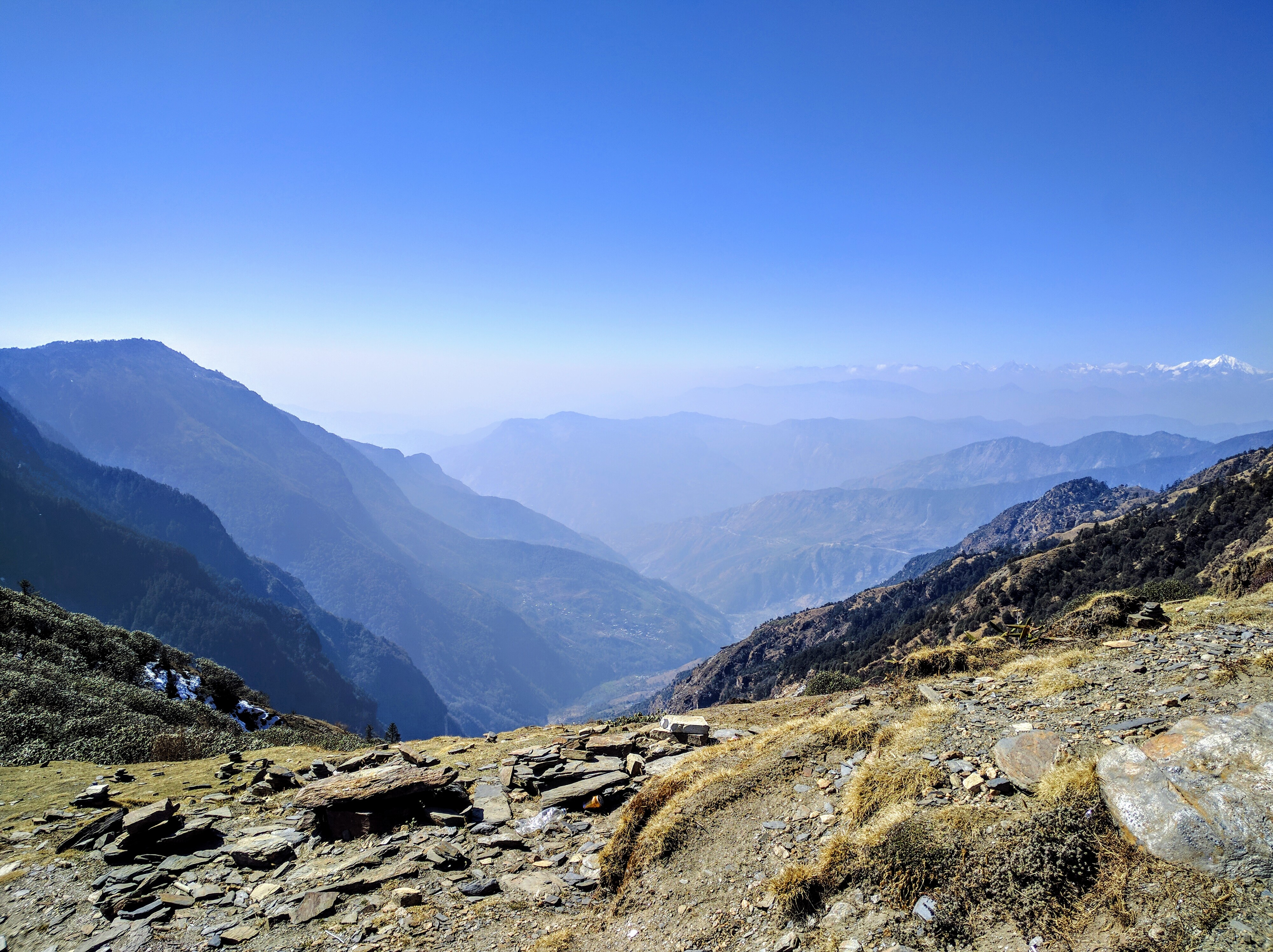 Amazing landscape on the way to Kalinchowk